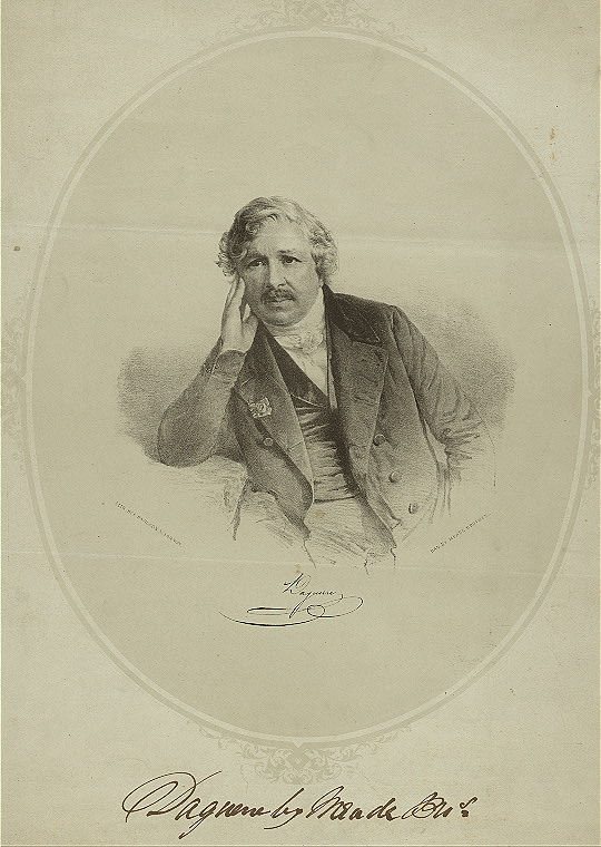 French engraver and daguerreotype developer Louis Daguerre